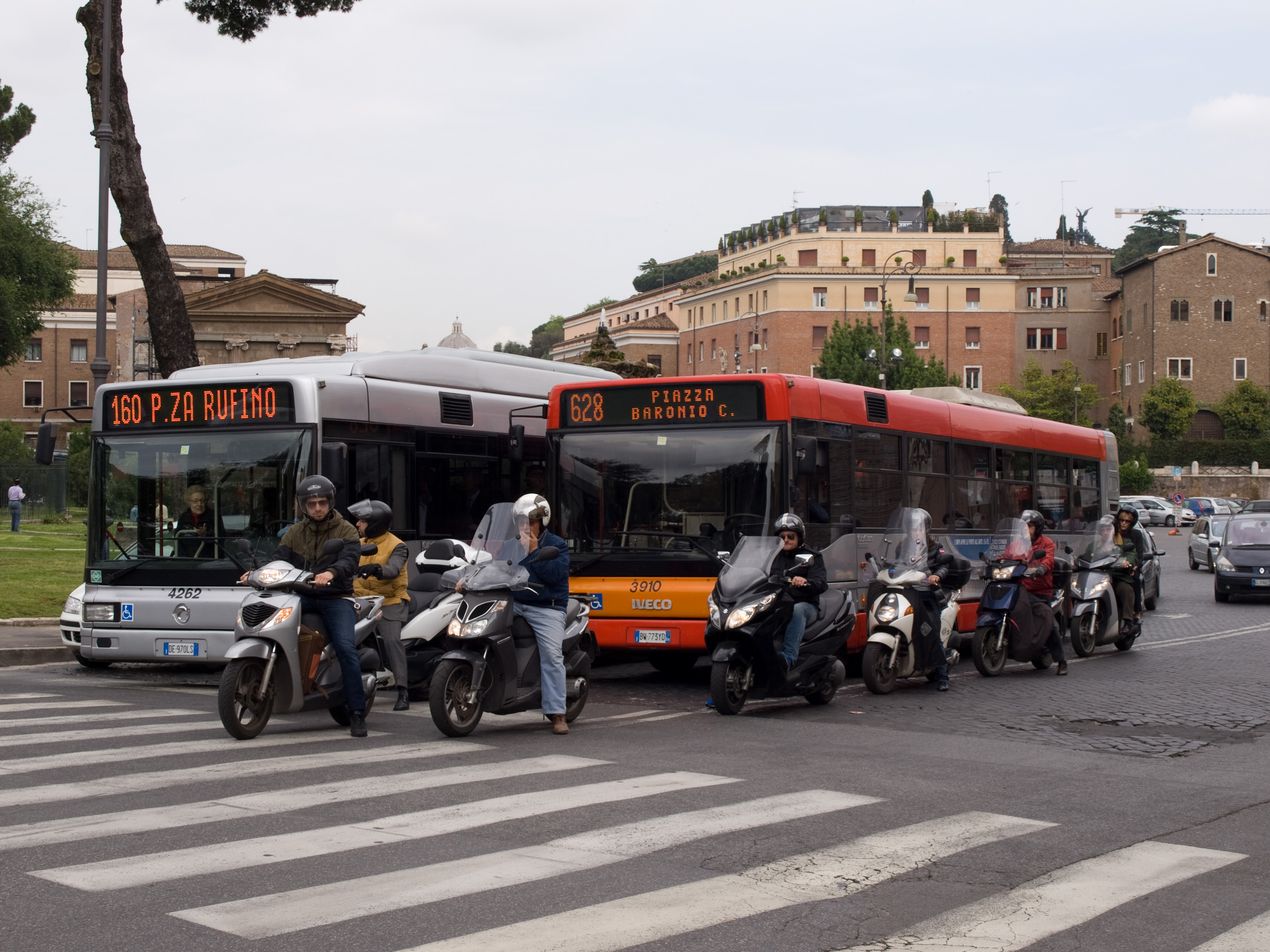 Narrow gauge eletric multiple unit, Roma